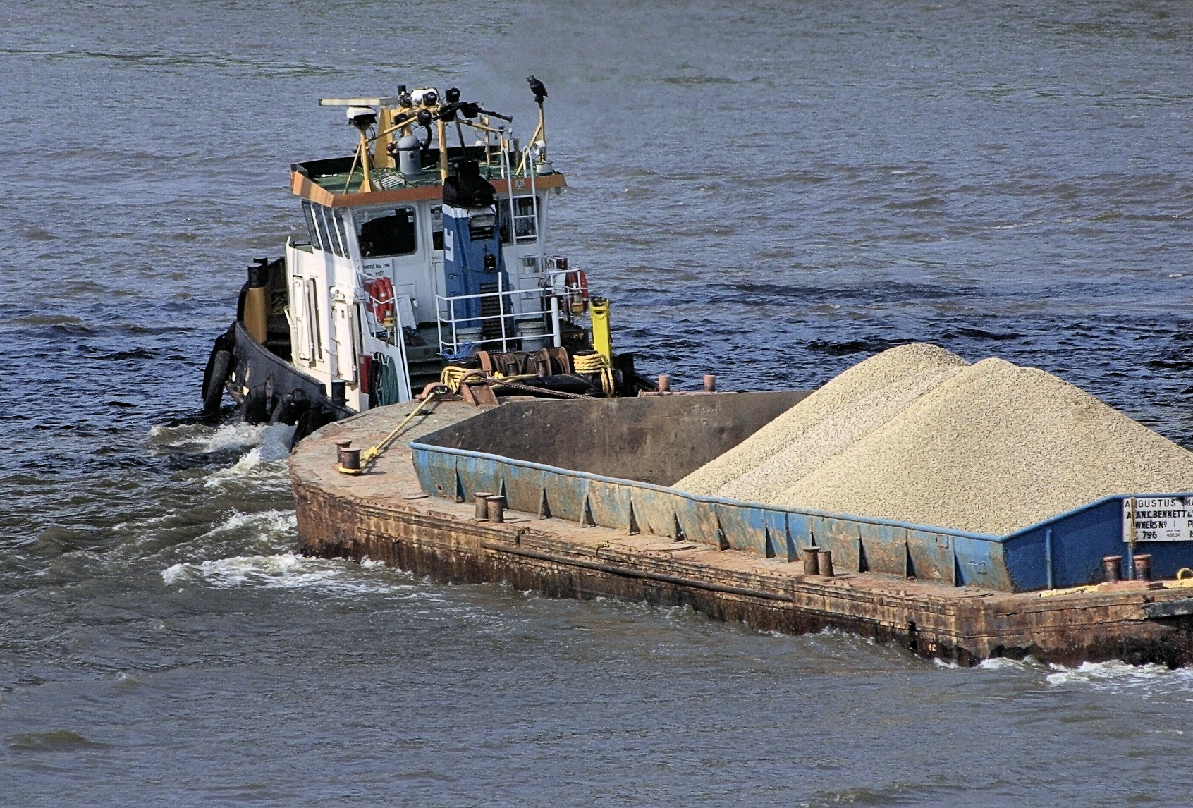 A gravel-laden barge pulled by a tugboat on the river Thames. The image was taken with a Canon EOS D30 with a Sigma 70-300mm lens.